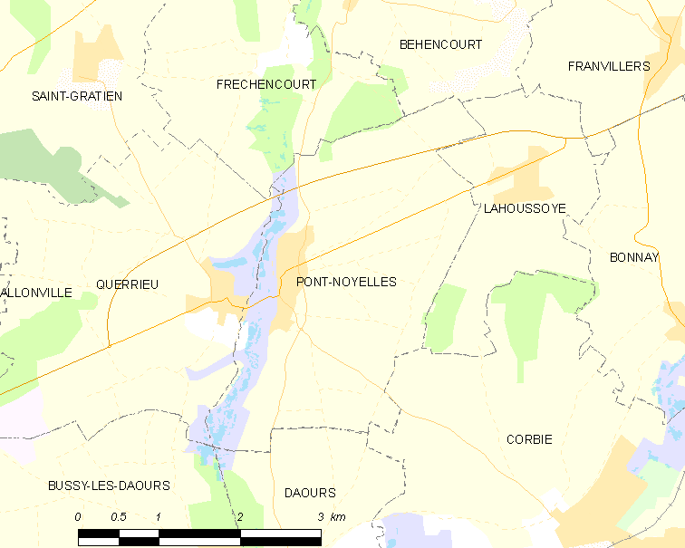 Map of French municipality Pont-Noyelles